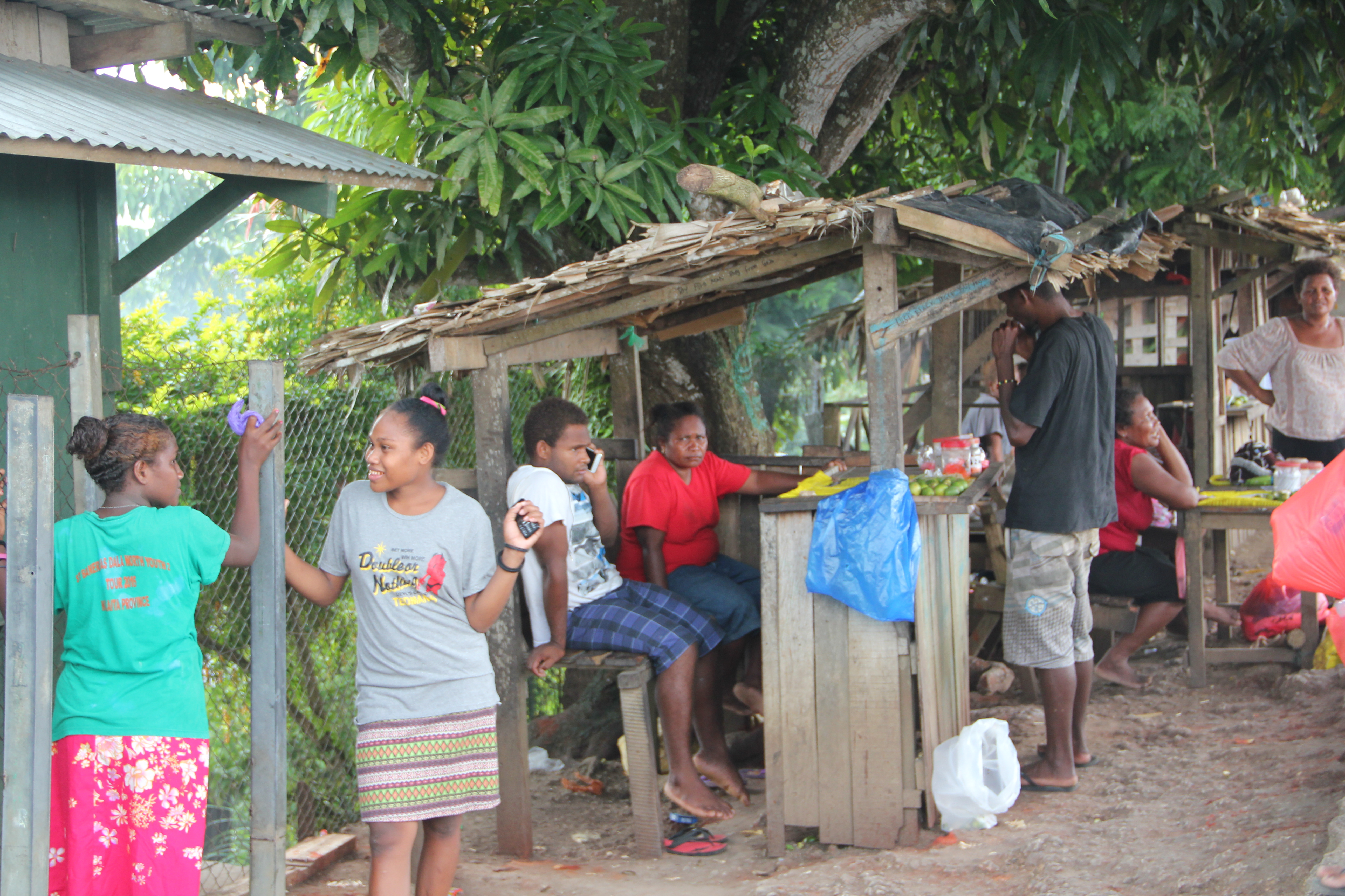 Along a road in Honiara